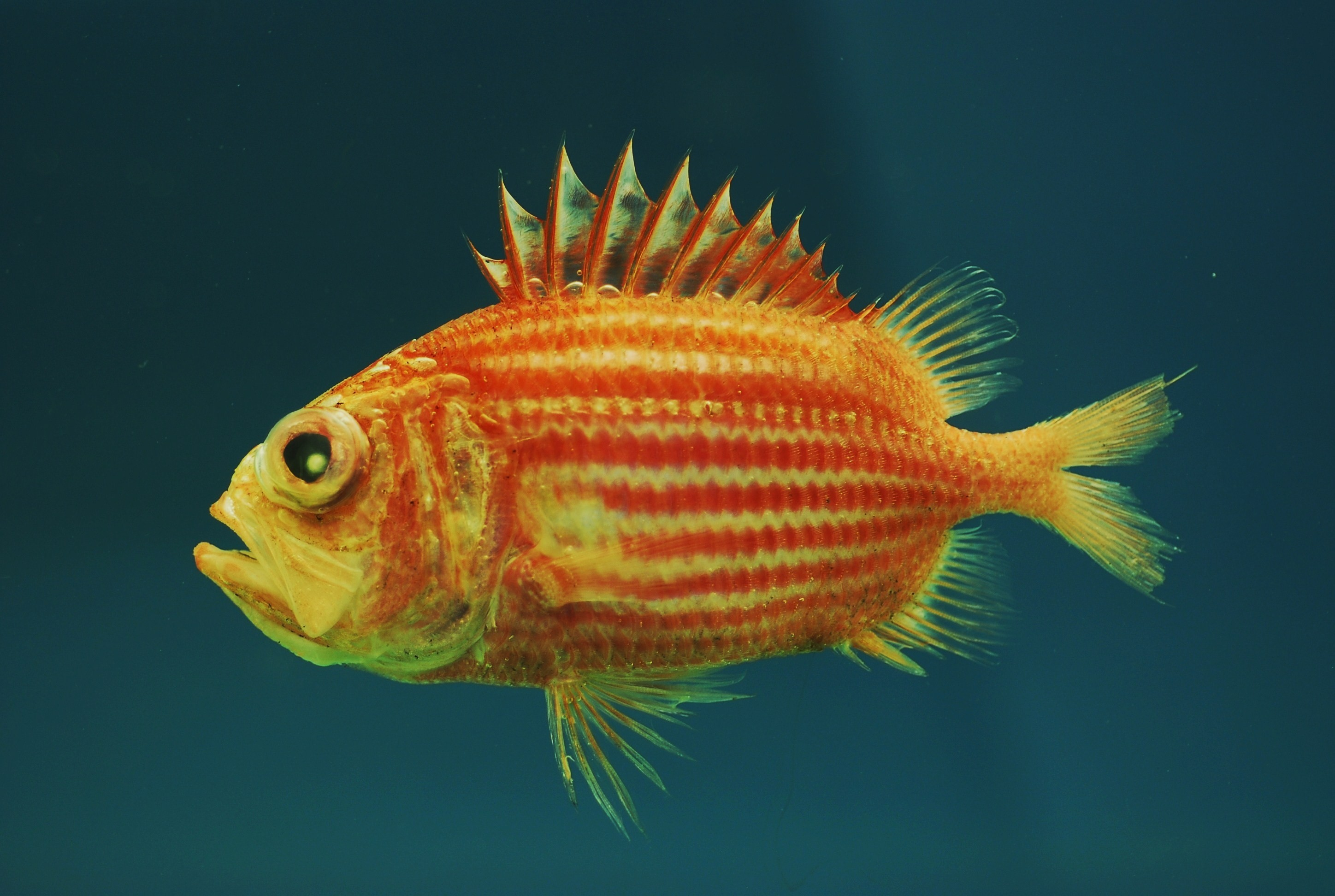 Bigeye soldierfish (Ostichthys trachypoma ). Gulf of Mexico.